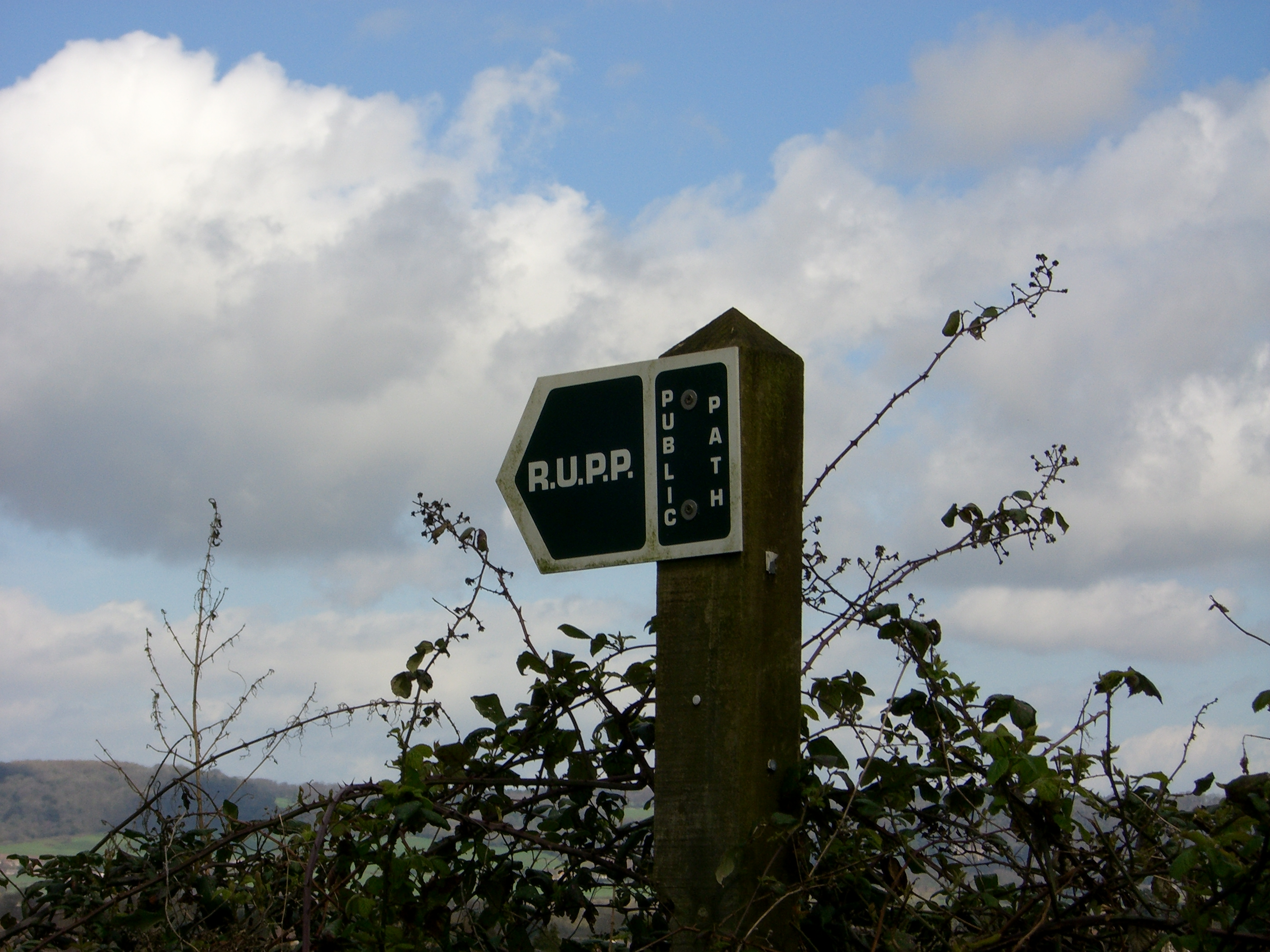 RUPP (Roads used as public paths) sign